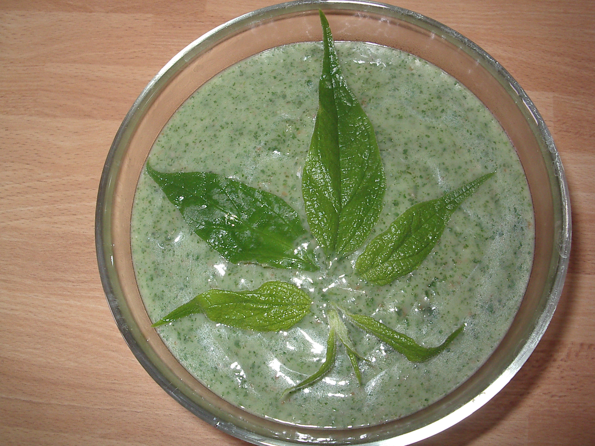 soup of Parietaria officinalis